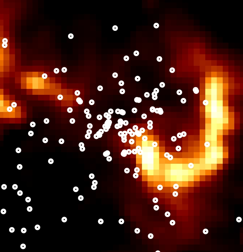 View of the molecular clouds in W40 as seen by Herschel/SPIRE at 500 µm. Overlaid are young stars from the "MYStIX Probable Complex Member Catalog" (Feigelson et al. 2013; Broos et al. 2013). Herschel is an ESA space observatory with science instruments provided by European-led Principal Investigator consortia and with important participation from NASA.